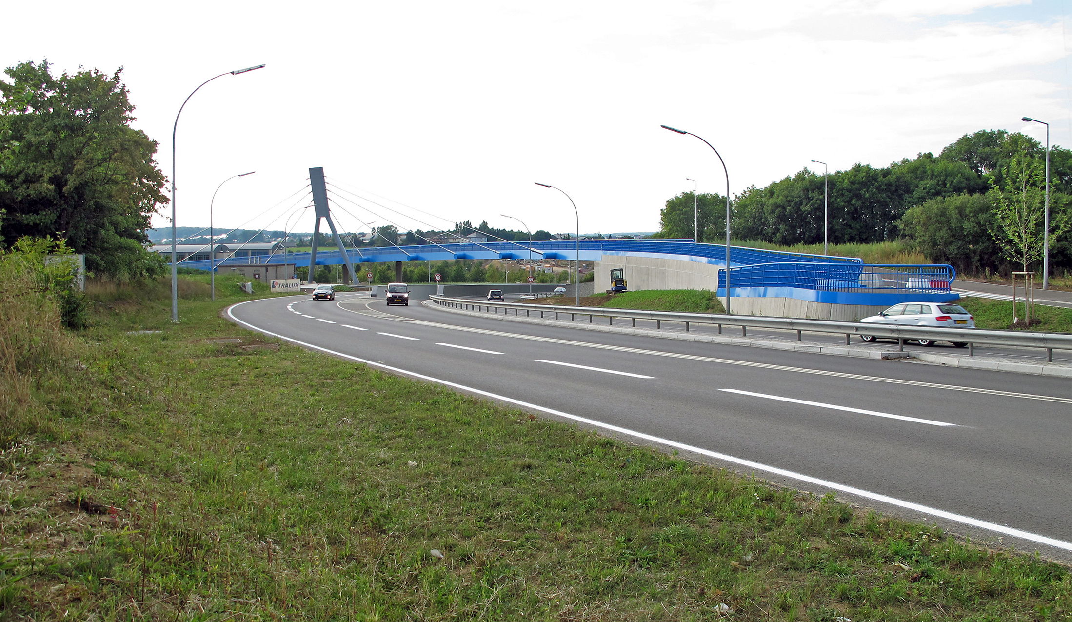 Fly-over-bridge in Bertrange, Luxembourg